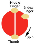 Diagram showing the correct grip for bowling the leg-cutter in cricket